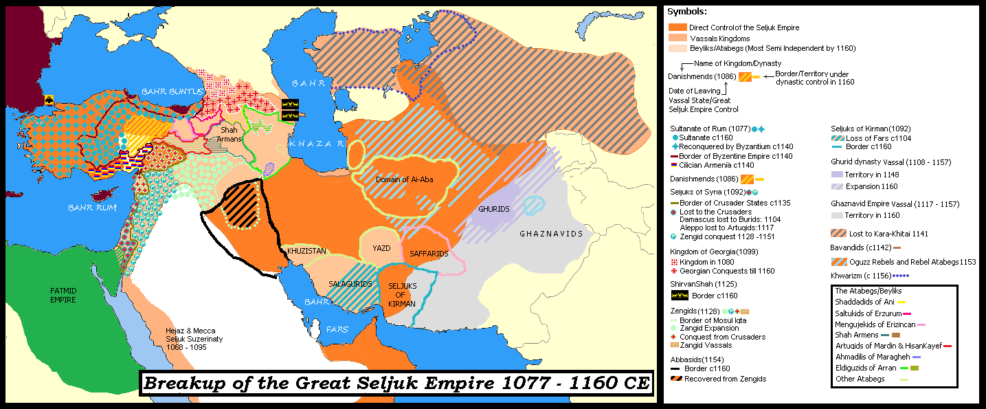 The Map shows the break up of the Great Seljuk Empire starting from 1077, when the Sultanate of Rum broke away, till the capture of Sultan Ahmad Sanjar in 1153. Th land was occupied by competing Atabegs, and Kara Khitai. This is a generic representation, not to exact scale,and borders are approximation done based of available information. This is a derivative work made from the original file listed below